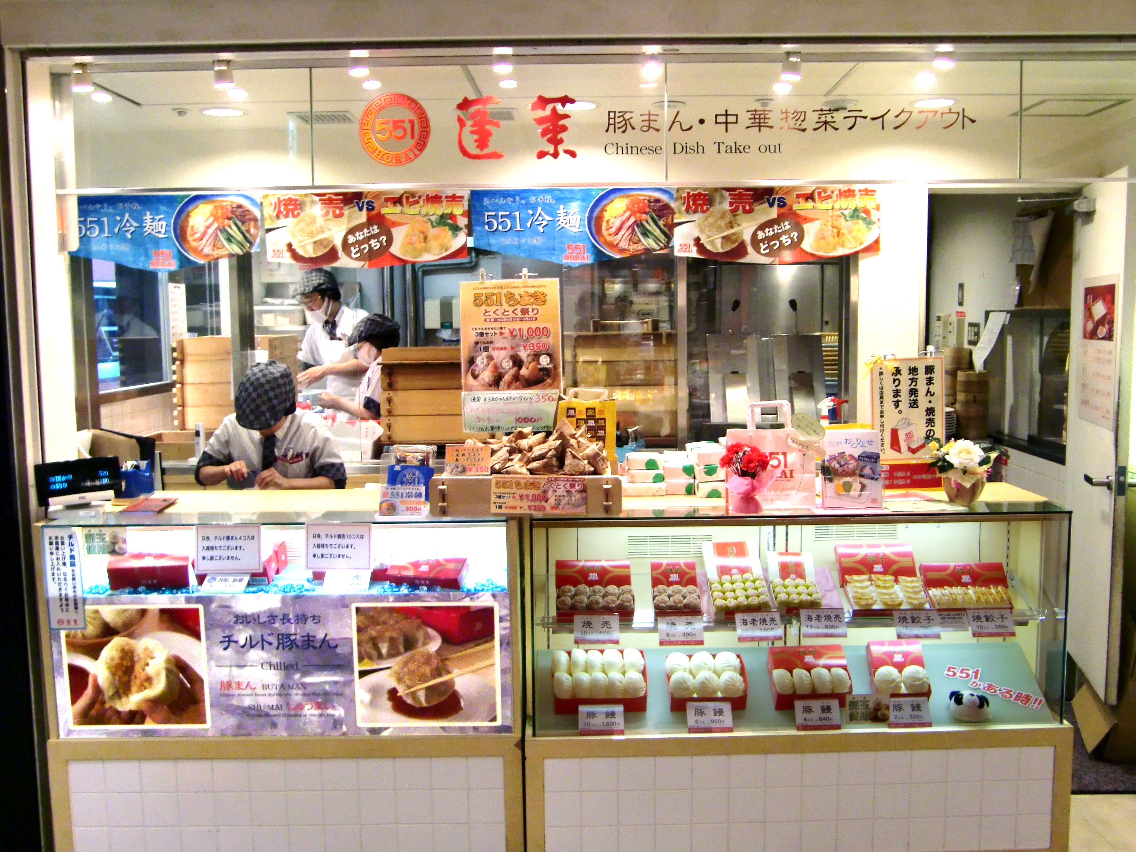 HORAI Kansaikuko, Osaka, Japan.